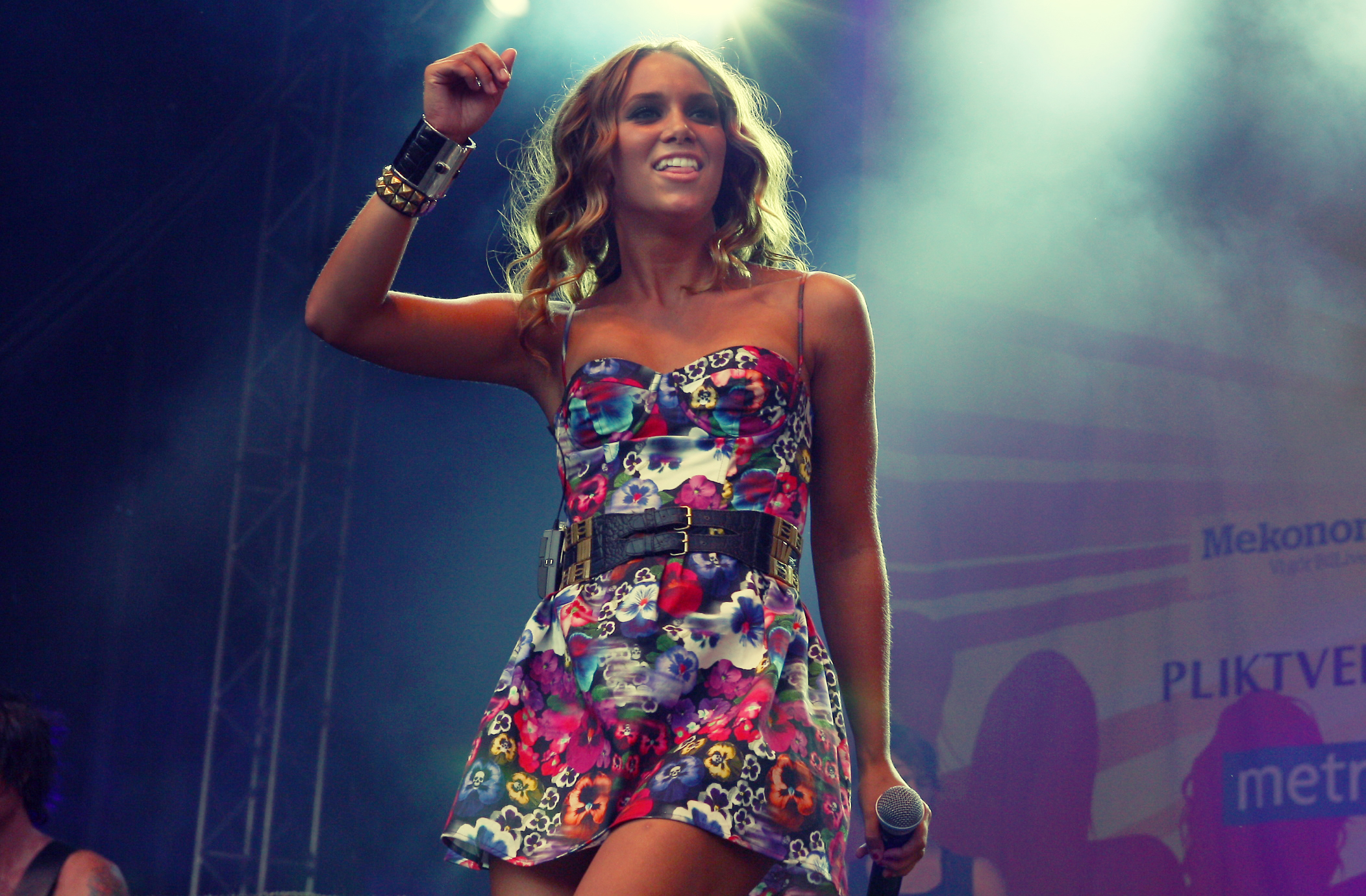 Agnes Carlsson at Rix Fm Festival, Kalmar, Sweden.